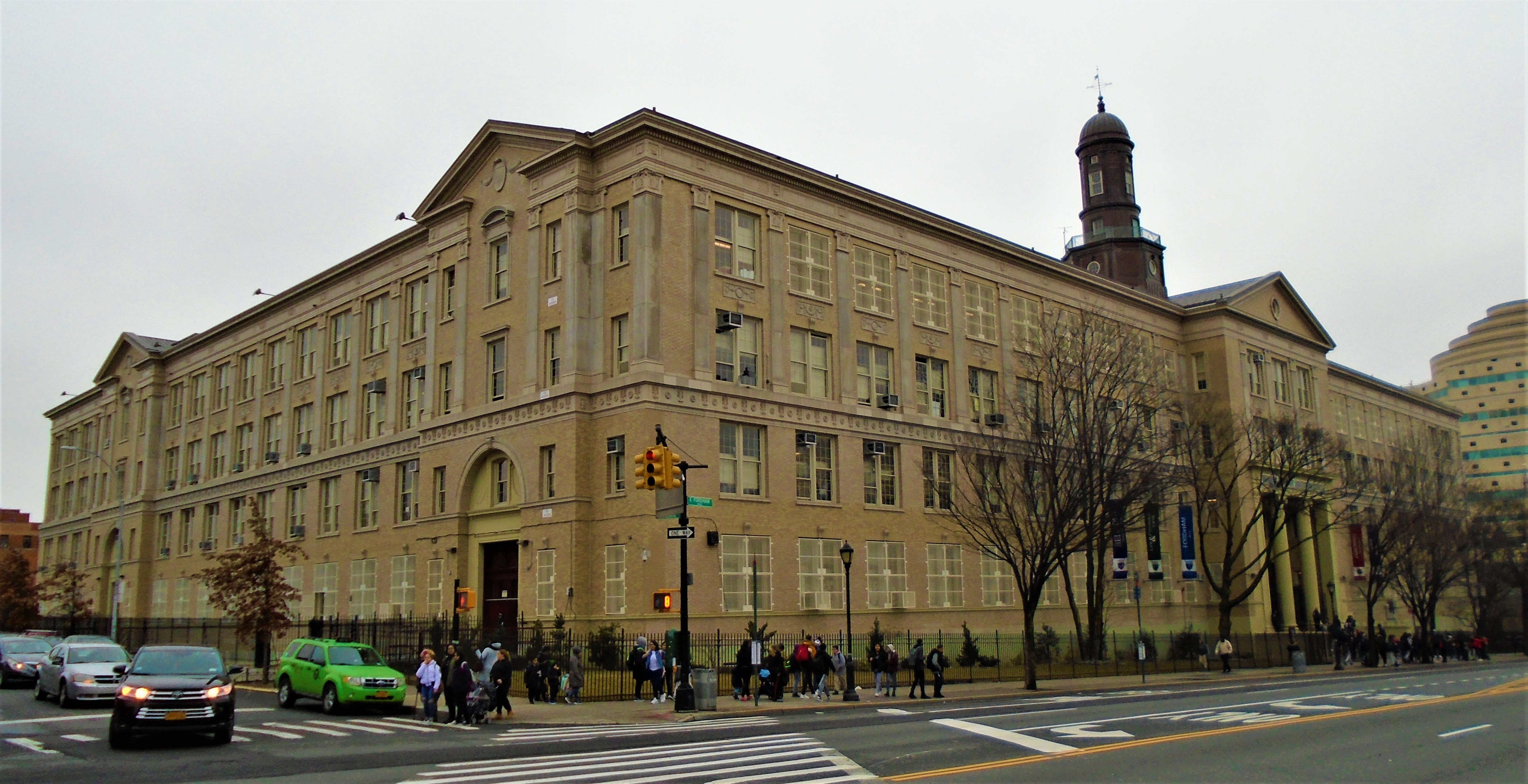 The Theodore Roosevelt Educational Campus, located at 500 East Fordham Road across from Fordham University in the Fordham neighborhood of the Bronx, New York City, was completed in September 1928 fur use by Theodore Roosevelt High School. The school had been organized in 1918, and operated until 2006. The building is now home to a number of small high schools.